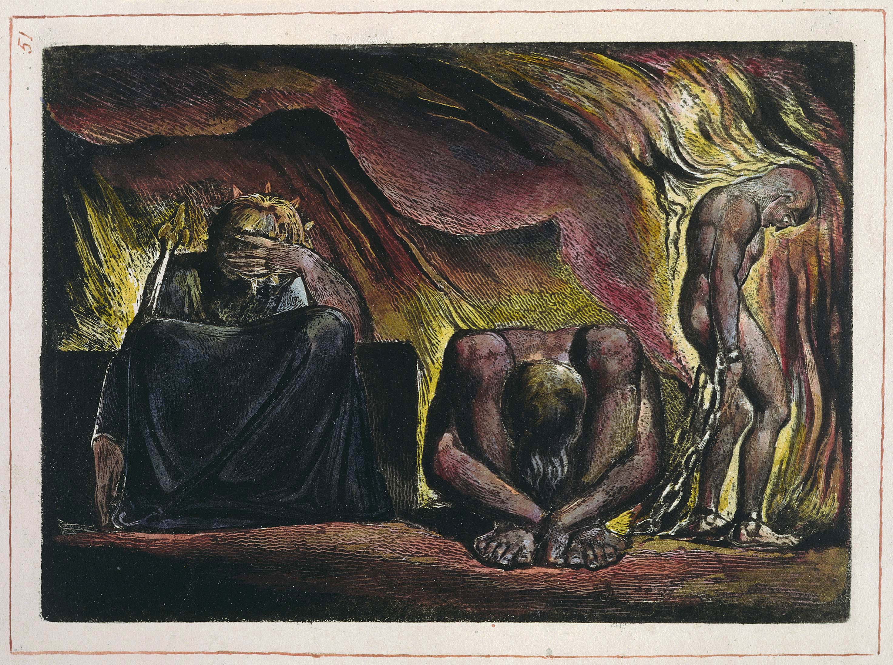 Jerusalem The Emanation of The Giant Albion, copy E, object 51 (Bentley 51, Erdman 51, Keynes 51)